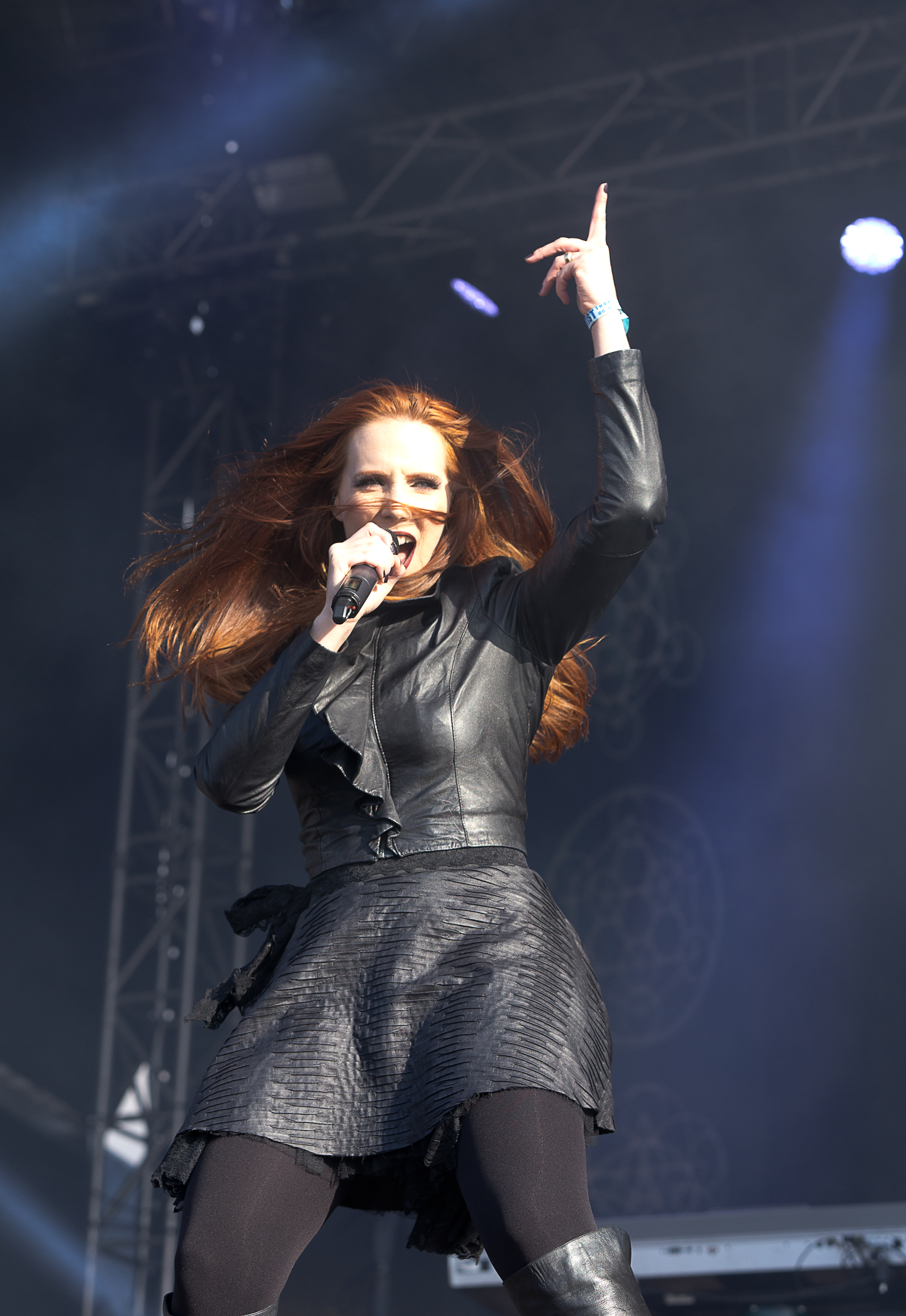 The Dutch symphonic metal band Epica at the Rockharz Open Air 2015 in Ballenstedt/Germany.